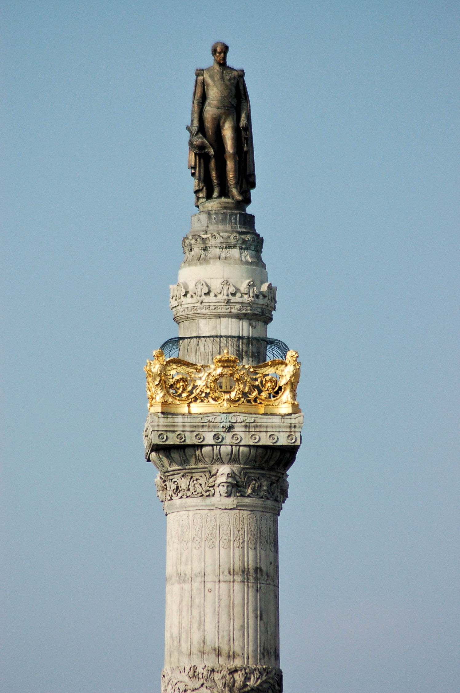 The Congress Column, located on Place du Congrès, Brussels, Belgium